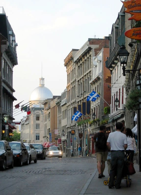 The silver dome of Marché Bonsecours caps a view down rue St Paul